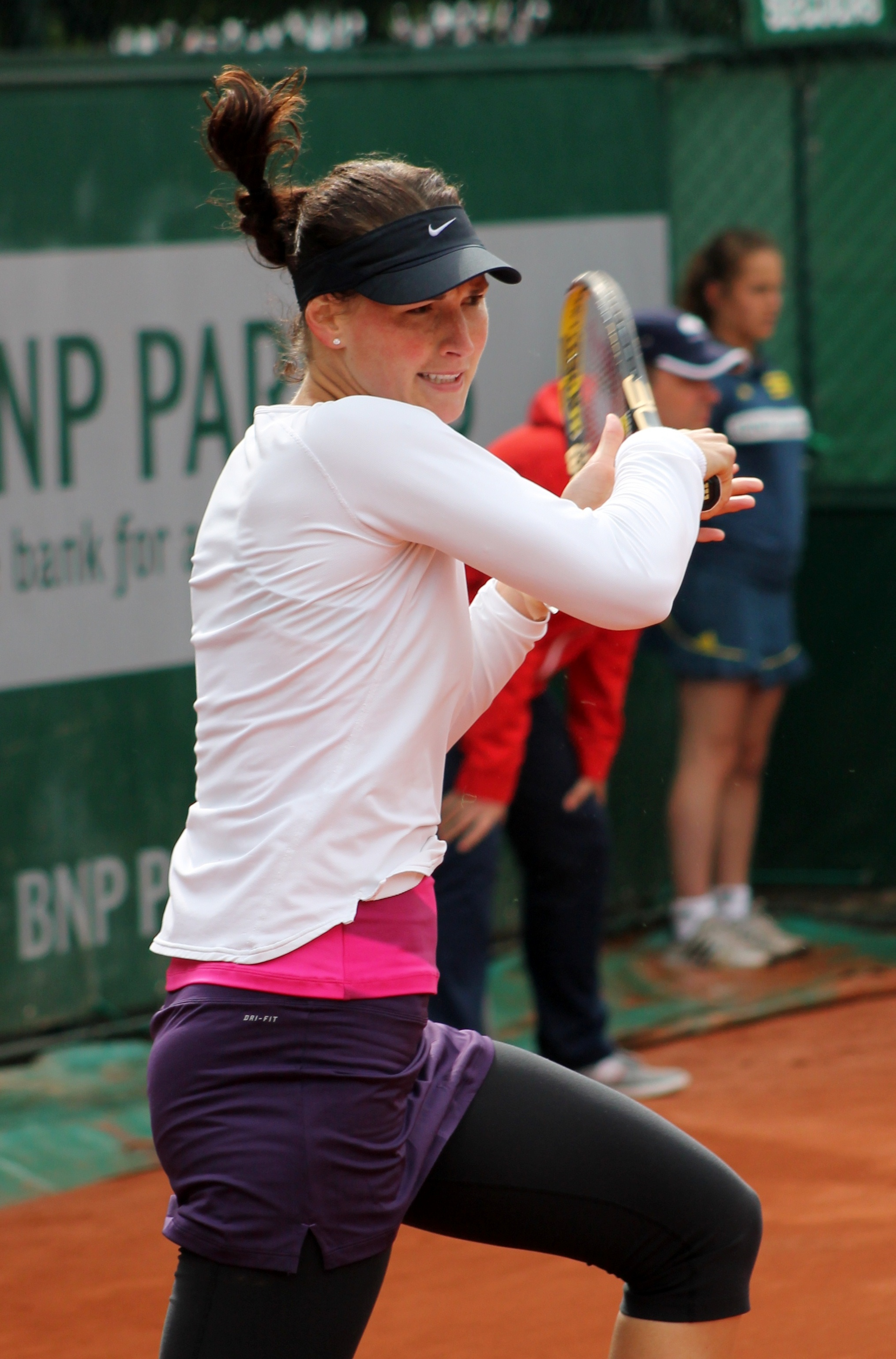 Eva Hrdinova playing at Roland Garros 2013